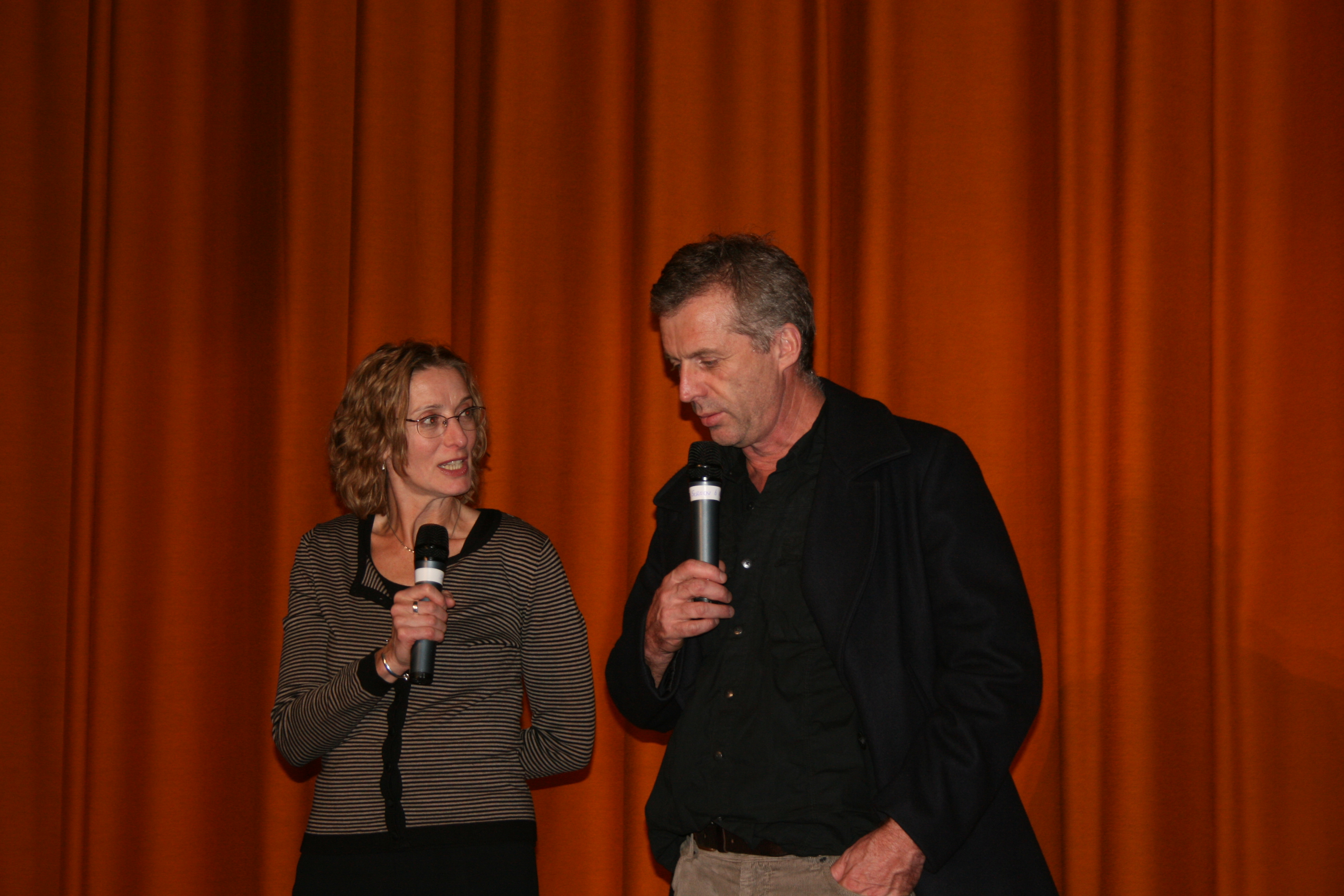 Bruno Dumont at the London Film Festival 2009